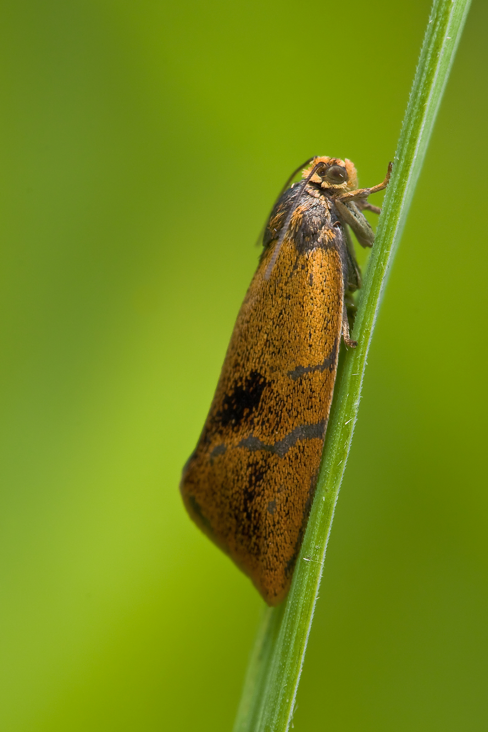 Ptycholoma lecheana (Tortricidae), female. Tortricidae is a family of moths in the order Lepidoptera. They are commonly known as tortrix moths.